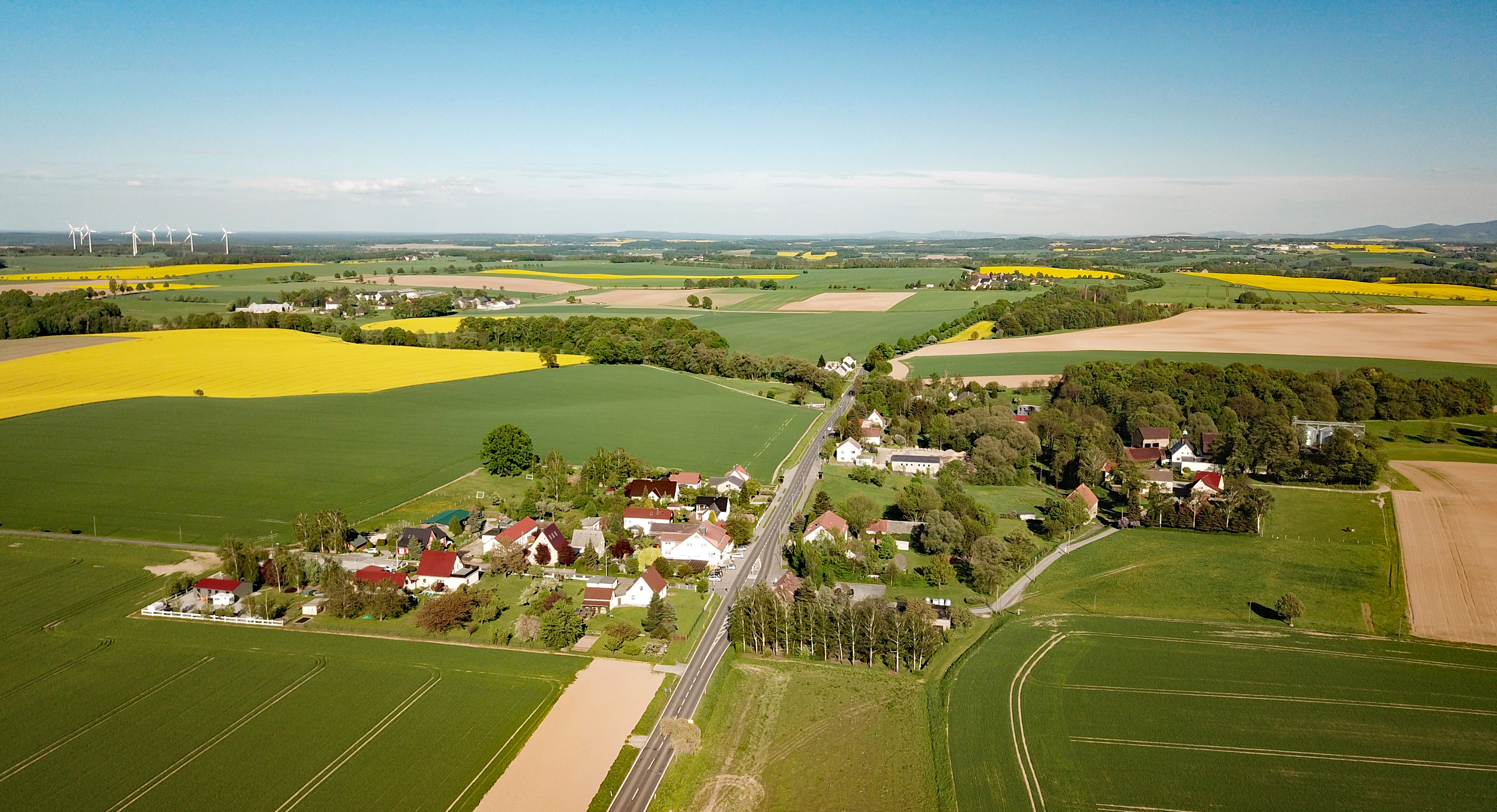 Lehndorf (Panschwitz-Kuckau, Saxony, Germany) Hornjoserbsce: Powětrowy wobraz Lejna ze zapada